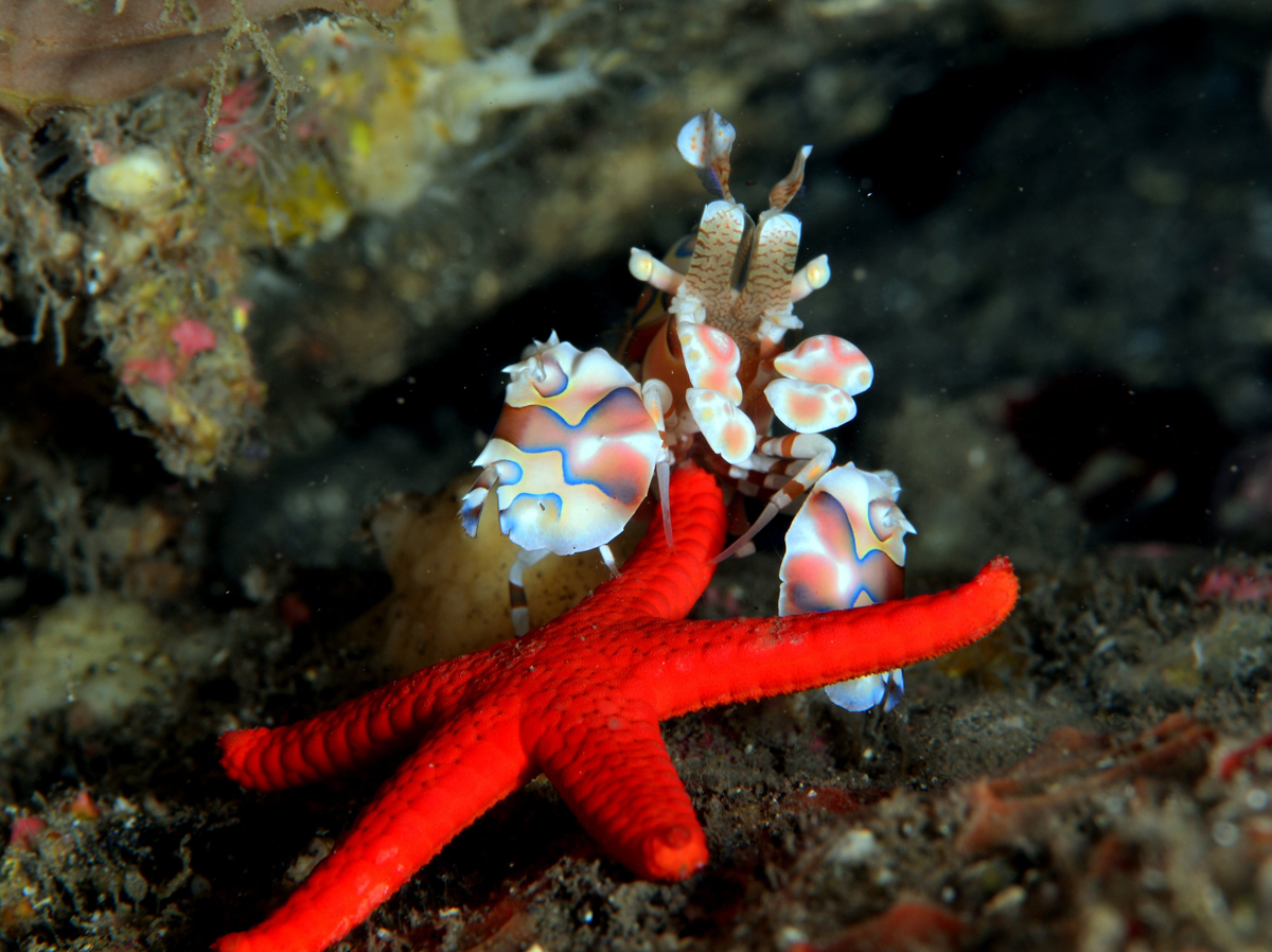 An Arlequin shrimp (Hymenocera picta) ready to eat a red sea star (Fromia milleporella) at Réunion Island.